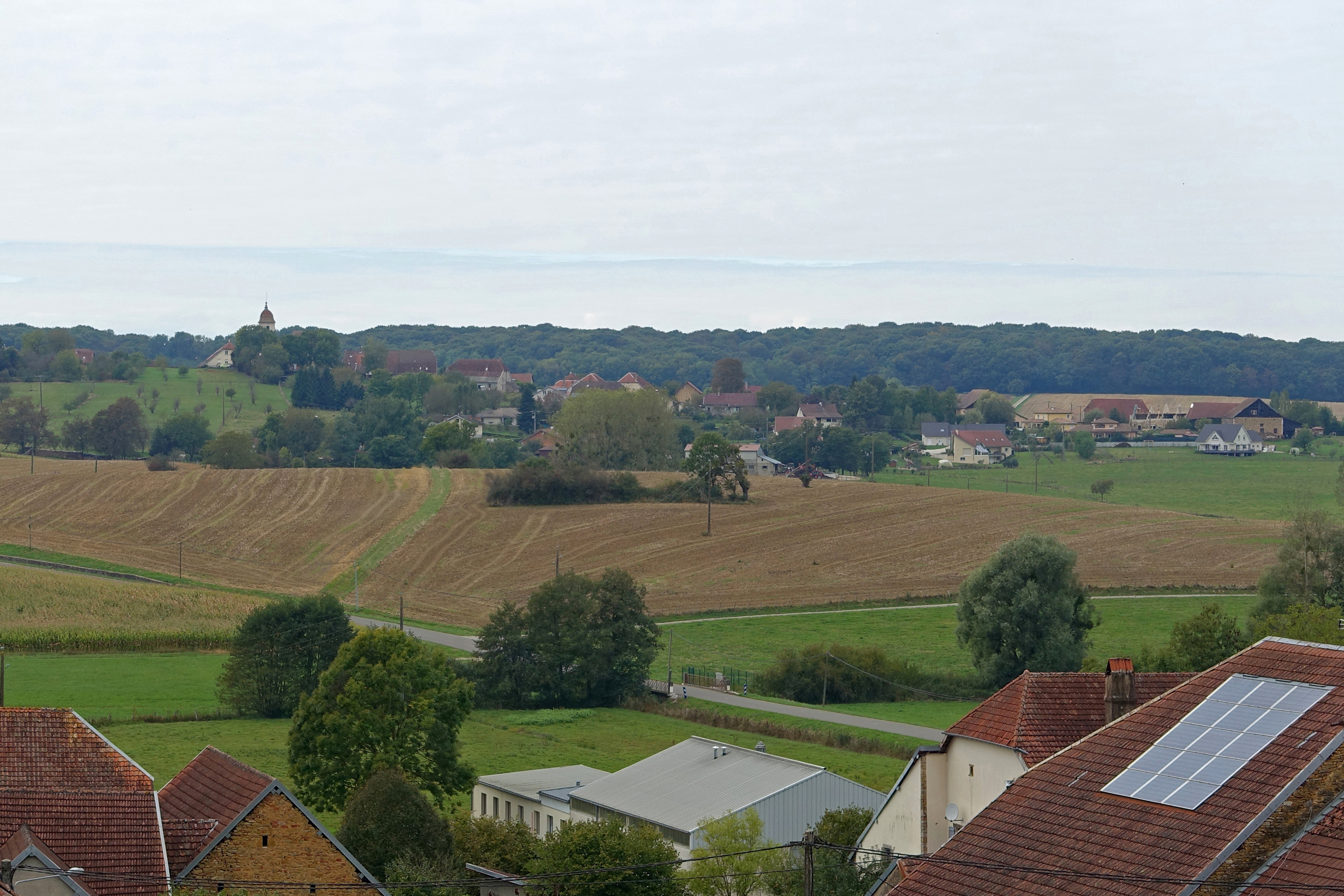 Mazerolles-le-Salin, seen from Vaux-les-Prés.